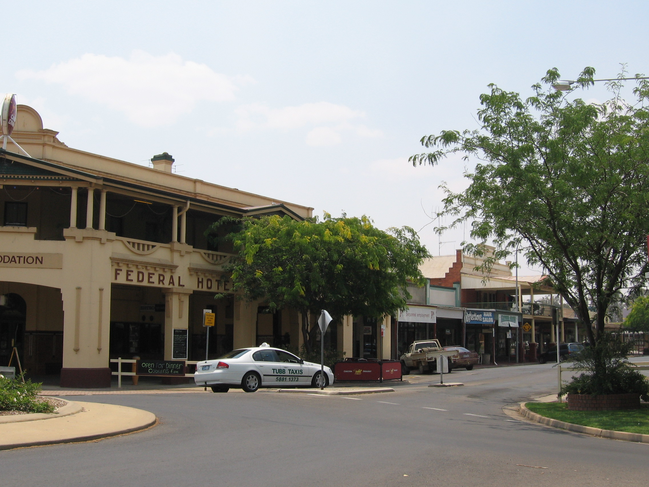 Deniliquin, New South Wales